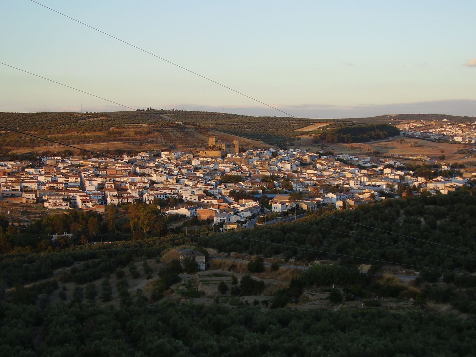 View from Cerro Ibros of the village of Canena, Jaen, Spain.